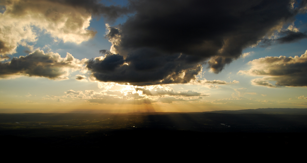 Traslasierra valley. Cordoba province, Argentina.